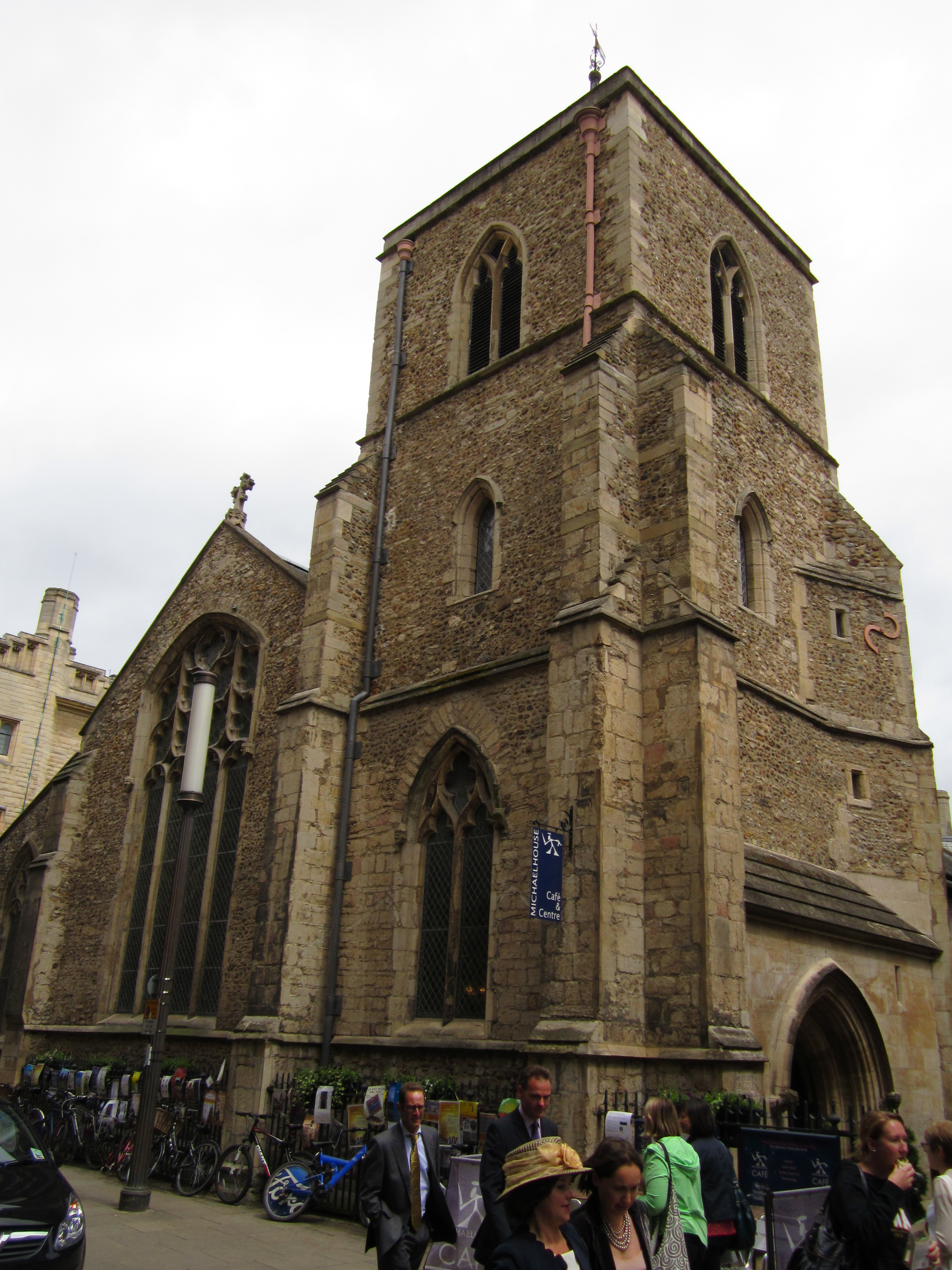 St Michael's Church, Cambridge, England.